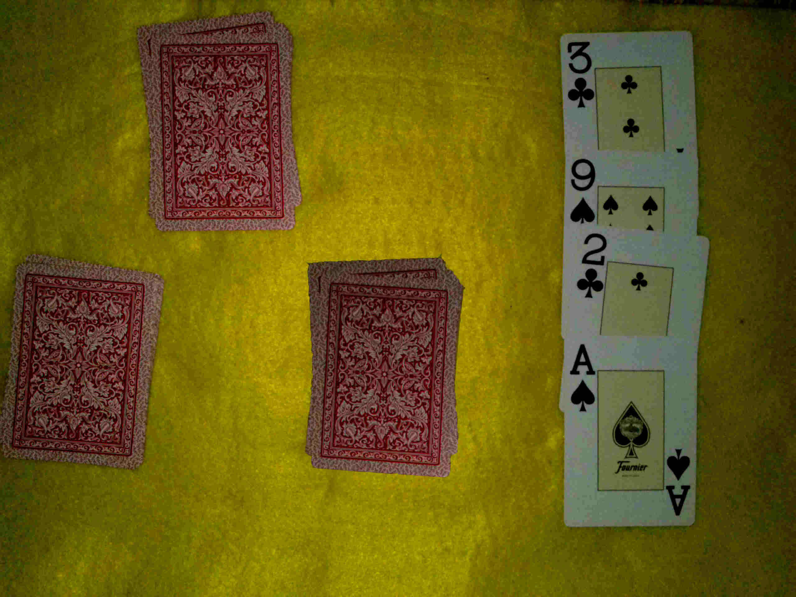 Distribution for 3-5-8. Besides a kitty.